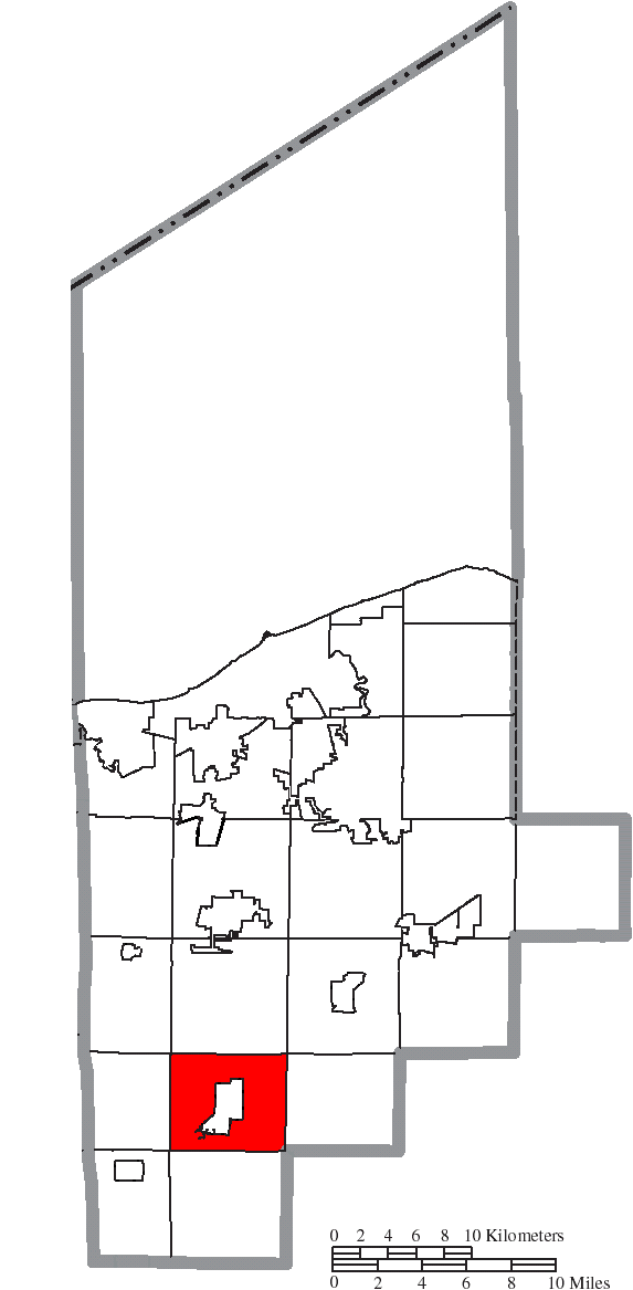 Map of the municipal and township boundaries of Lorain County, Ohio, United States, as of the 2000 census, with the location of Wellington Township highlighted. Township borders are shown only in unincorporated areas in order to differentiate incorporated and unincorporated areas more clearly.